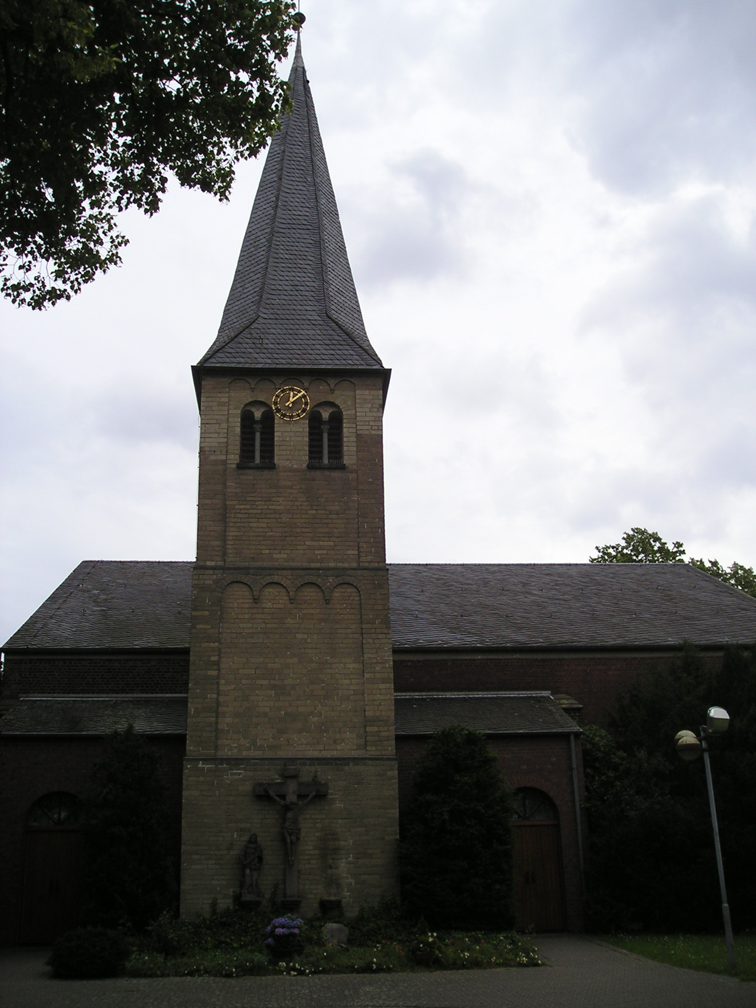 Church Tower of St. Dionysus in Baumberg